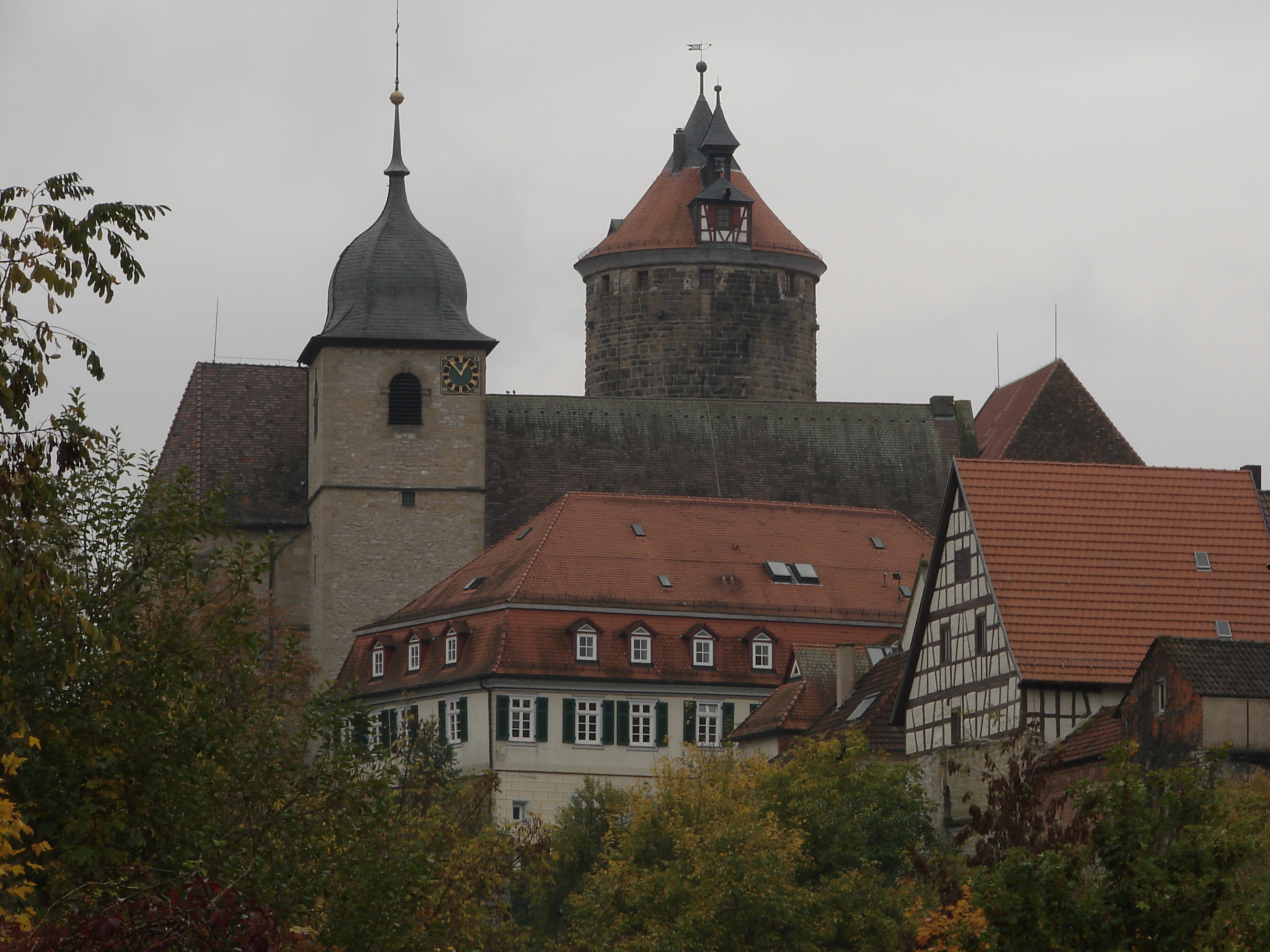 Besigheim, protestant town church, with ancient latin school in front and big town tower Schochenturm behind the church